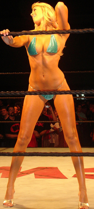 Kelly Kelly, wins over the crowd as ECW visits the Palmer Events Center in Austin, Texas, on Monday July 17, 2006.The other kind of extreme